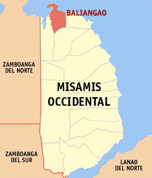 Map of the Misamis Occidental showing the location of Baliangao